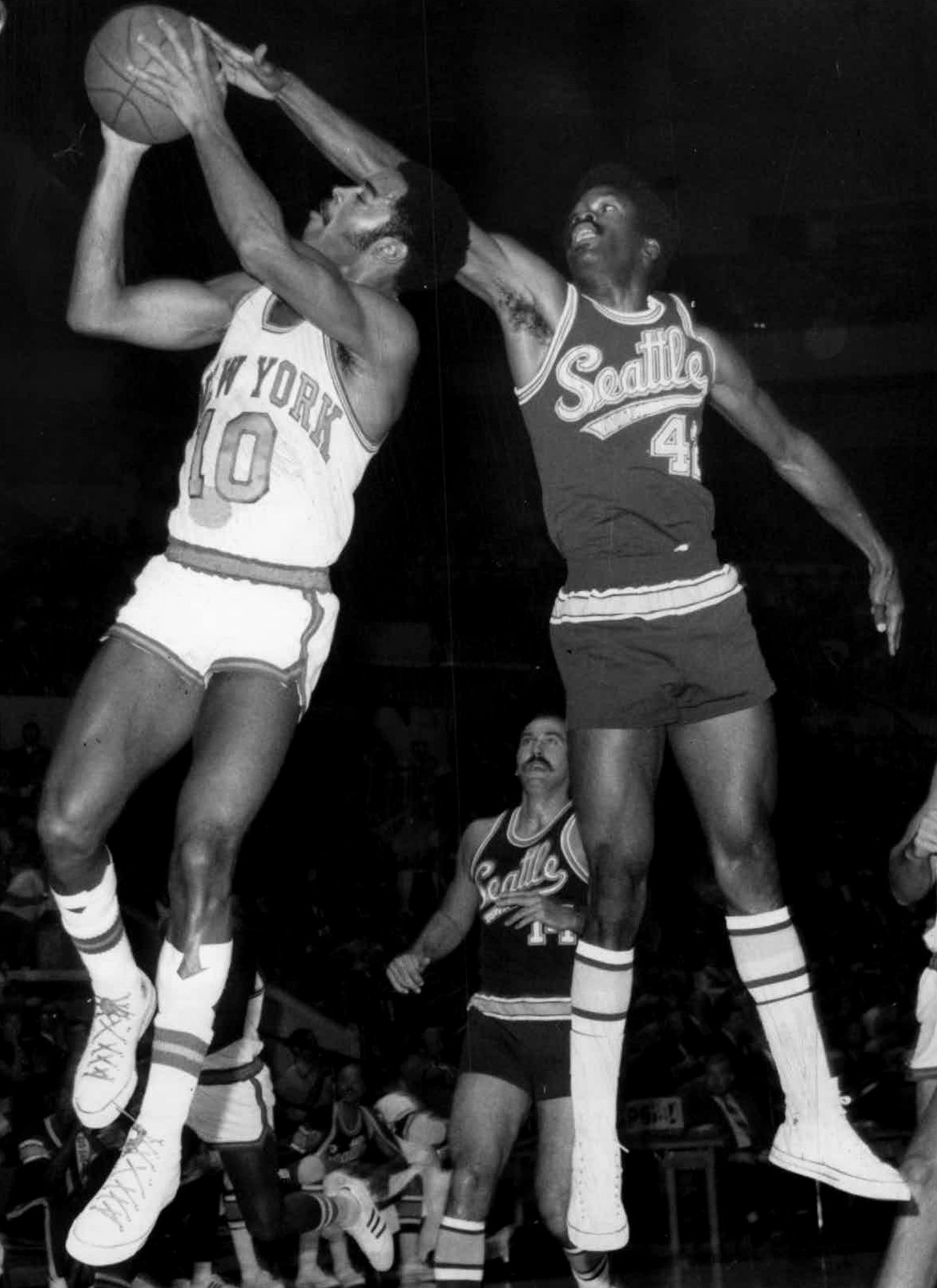 Professional basketball players Walt Frazier (left) and Lucius Allen (right)